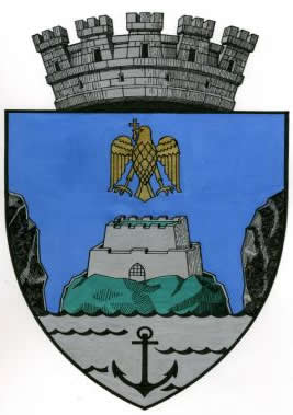 Coat of arms, Orşova, Romania